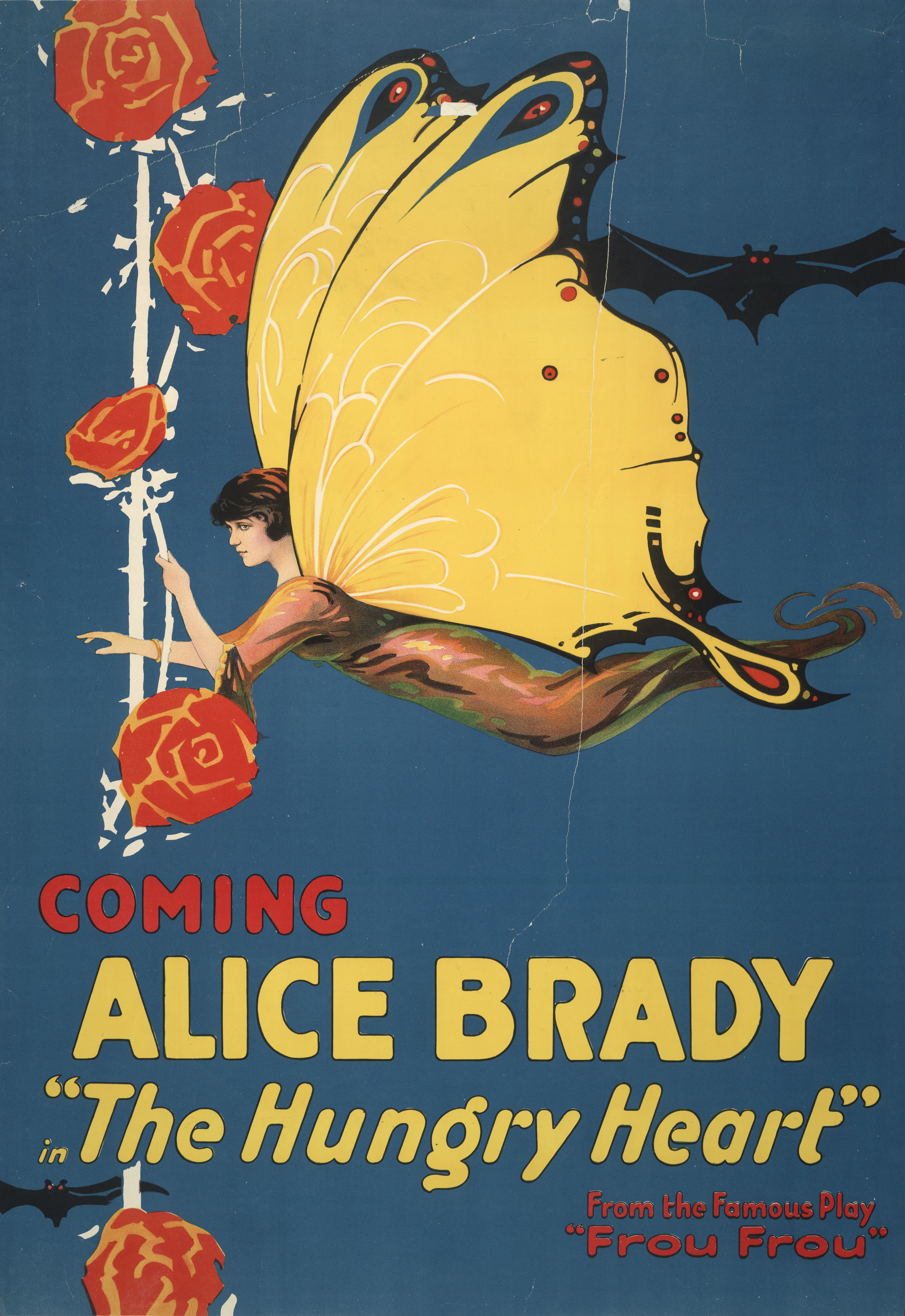 The Hungry Heart is a 1917 American silent drama film directed by Robert G. Vignola and written by Charles Maigne based upon the novel of the same name by David Graham Phillips. 1 print (poster) : lithograph, color ; 101 x 70 cm. Summary Motion picture poster for "The Hungry Heart" shows a butterfly with the shape of a woman (actress Alice Brady?) hovering near roses. Subject Headings Brady, Alice,--1892-1939--Performances Butterflies--1910-1920 Roses--1910-1920